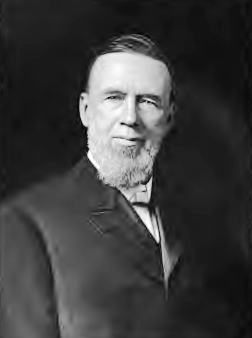 George Whitaker, MA native and president at two universities in Oregon, and one in Texas.